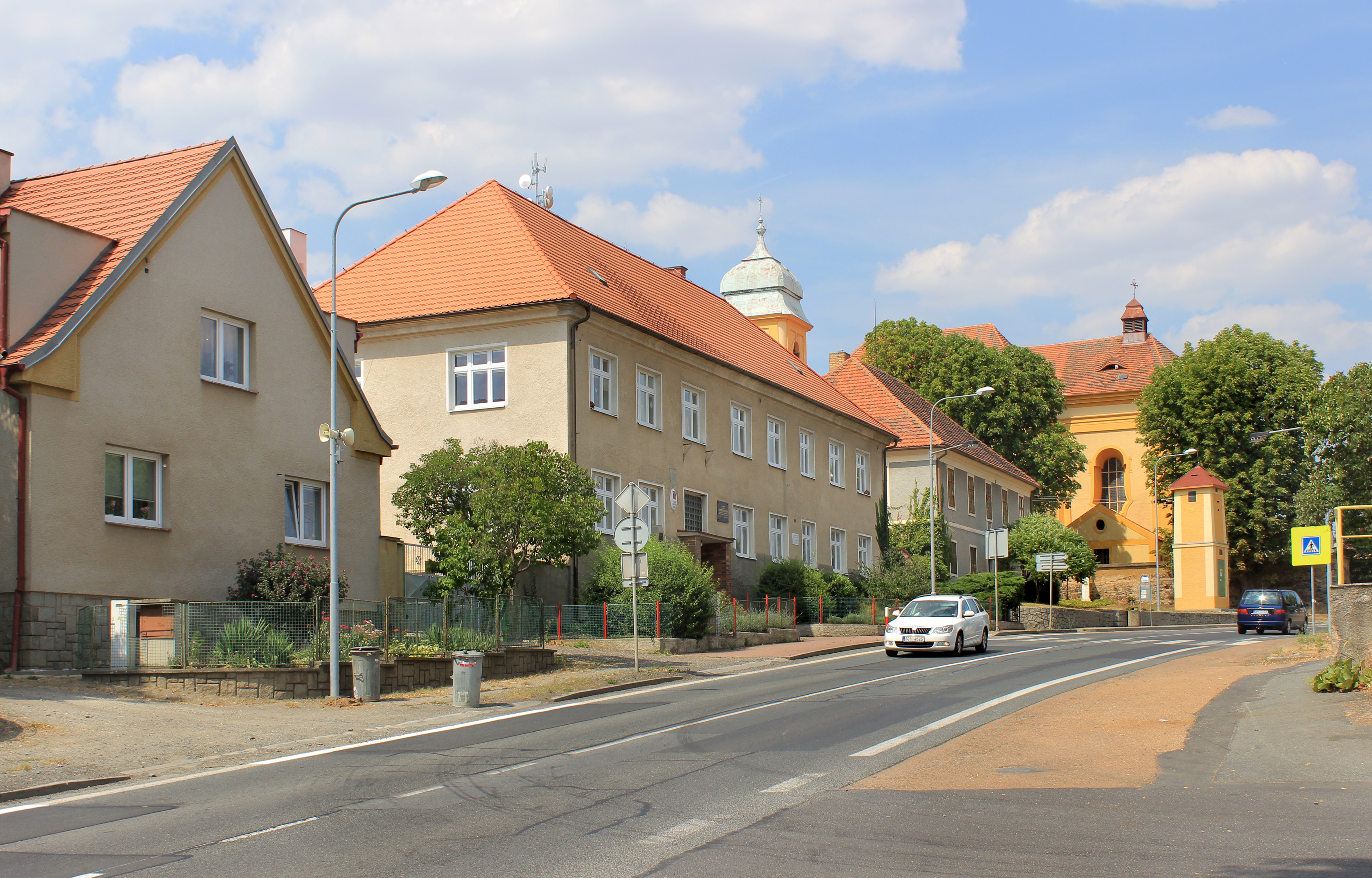 Middle part of Chválenice, Czech Republic.